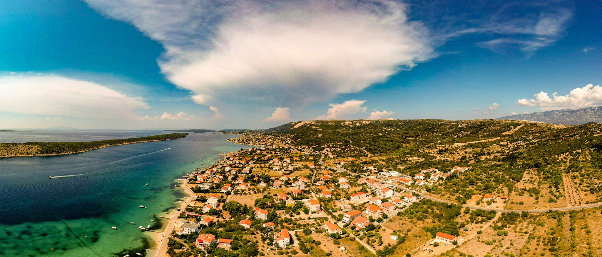 Barbat on Rab, Croatia